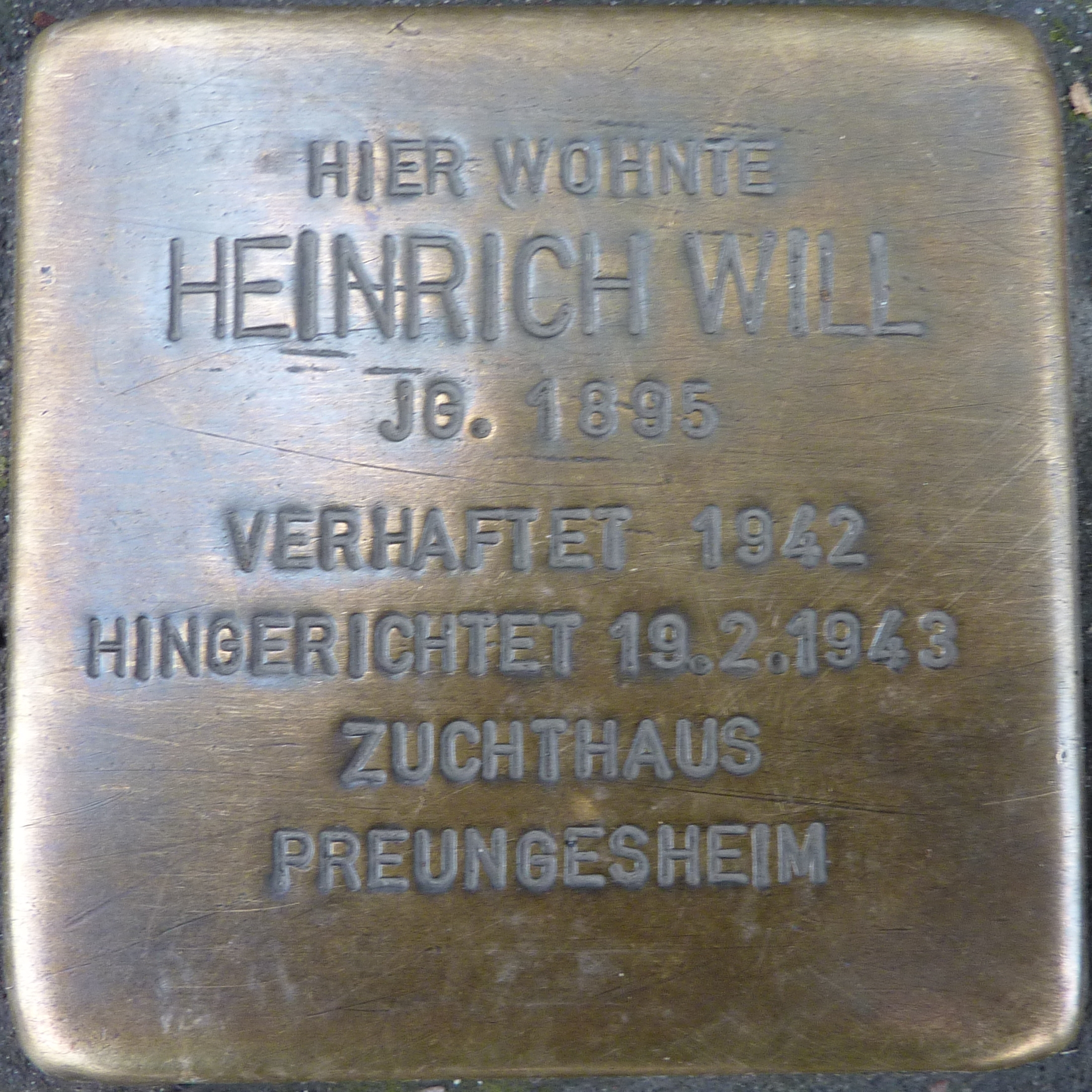 "Stolperstein" (stumbling block), Heinrich Will, Friedrichstraße 8, Gießen, Hesse, Germany